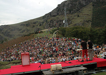 Political act in honour of Basque fighters held in Aritxulegi, Oiartzun. The people on the scene are playing a txalaparta.